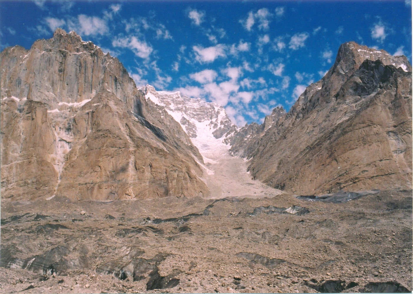 Mt. Biale (6729m) in the background with Biale-Glacier joining the Baltoro. Second Cathedral on the left.